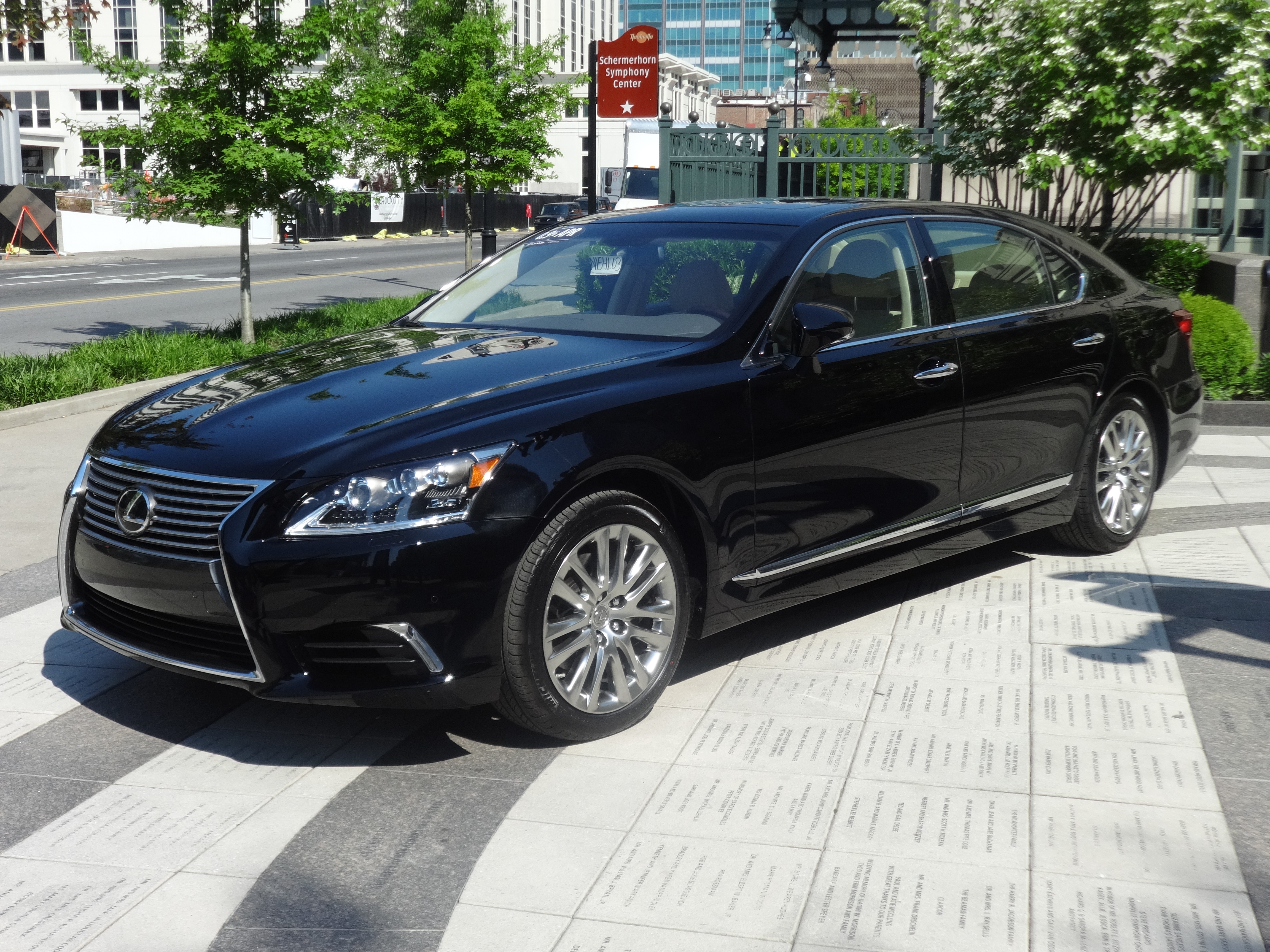 Toyota Lexus LS 460 L in Nashville, Davidson County, Tennessee